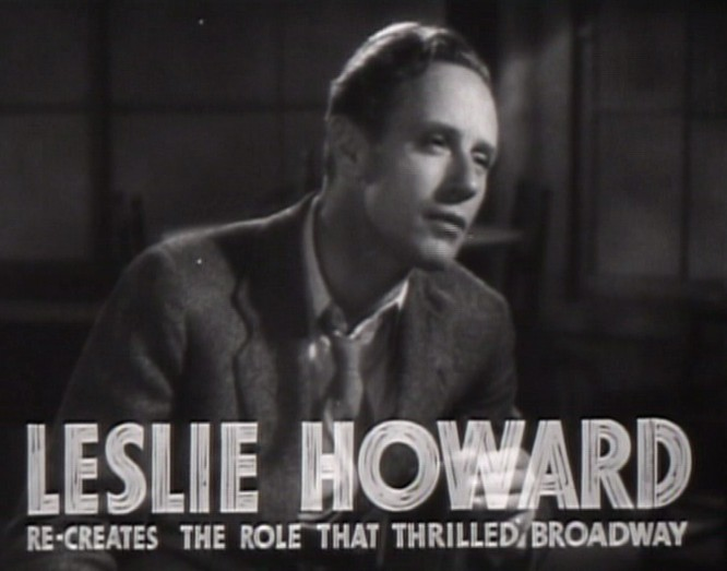 Cropped screenshot of Leslie Howard from the trailer for the film The Petrified Forest.